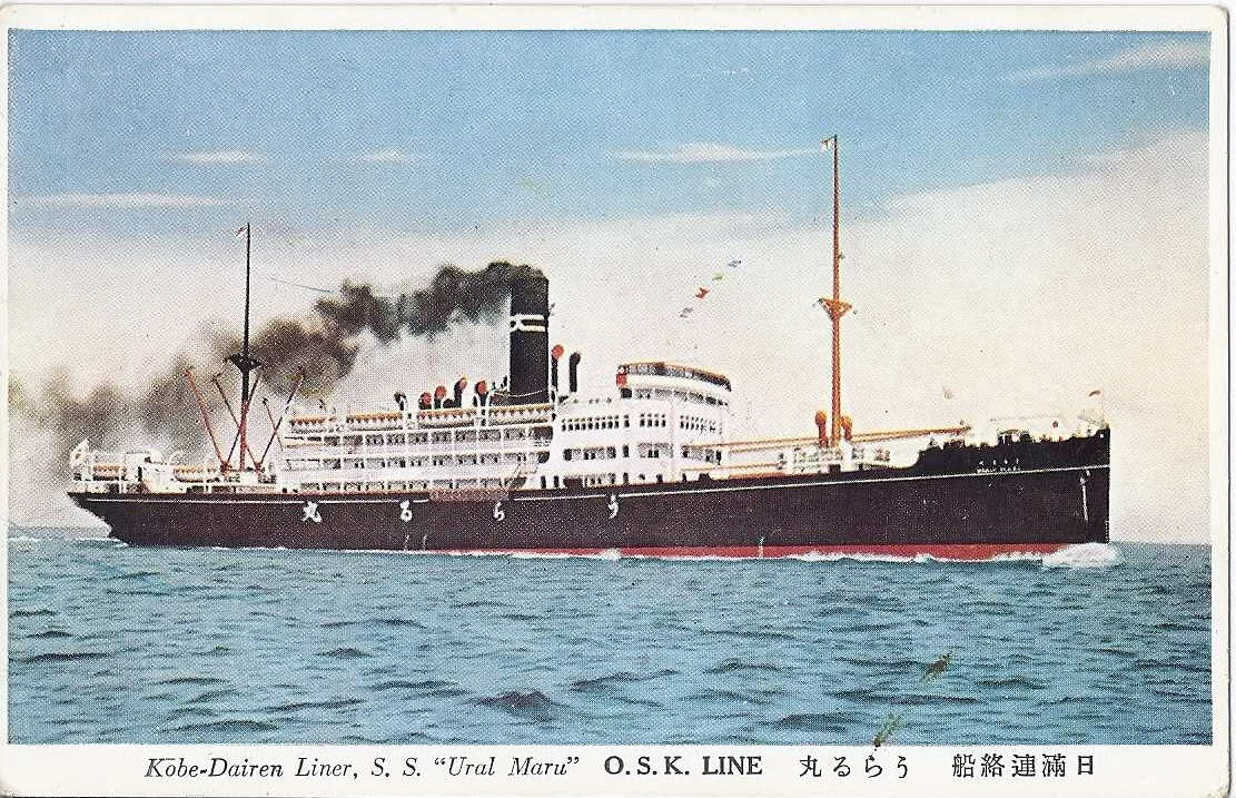 Postcard of the OSK Line ship Ural Maru, 1930s